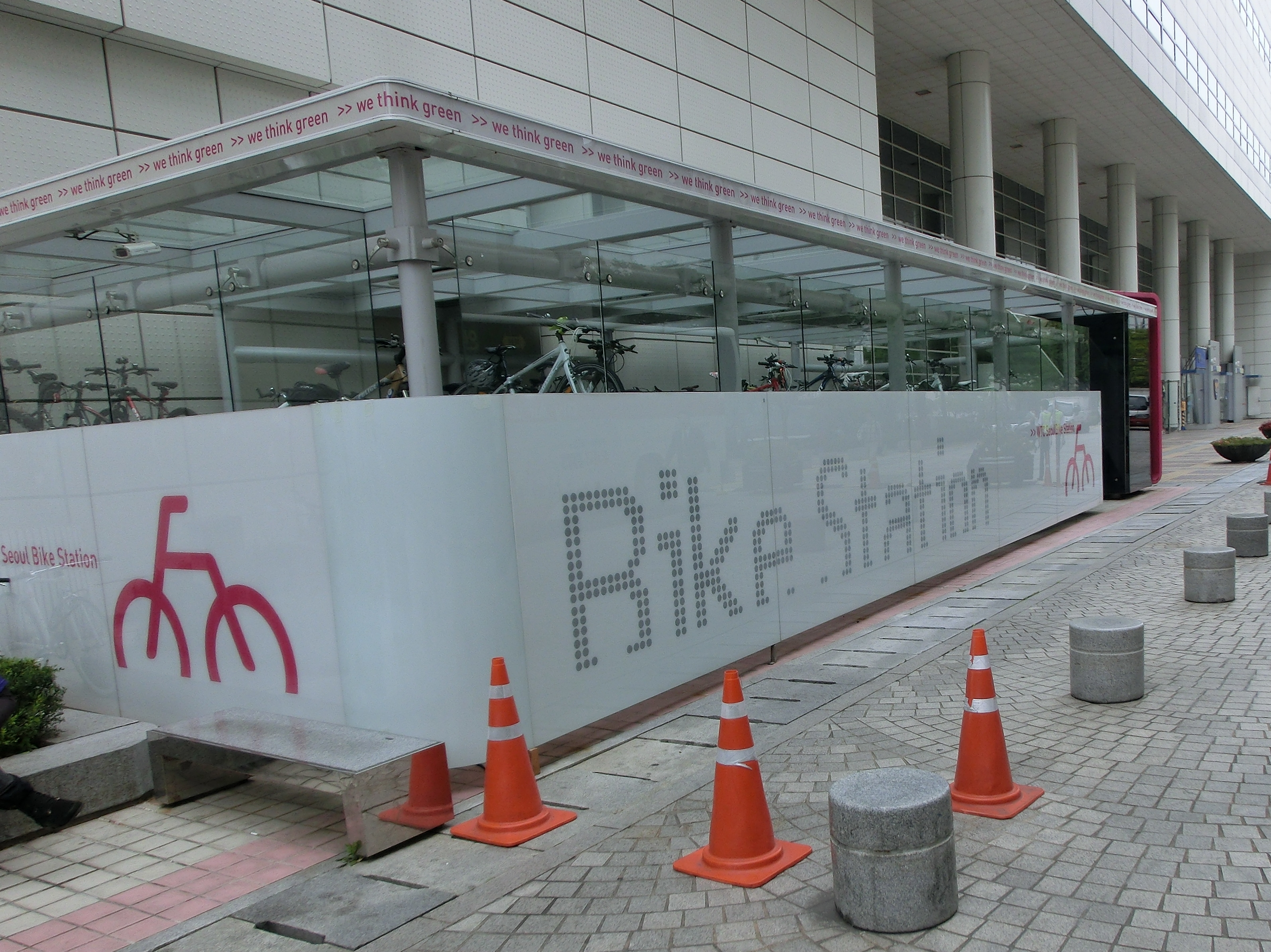 Bike station in Seoul at COEX Conference and exhibition centre